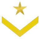 Rank insignia of the Workers' and Peasants' Red Army (WPRA), here "Commander of the army 1st Class" (OF9) – Chevron/ sleeve military rank Army 1935 – 1940.